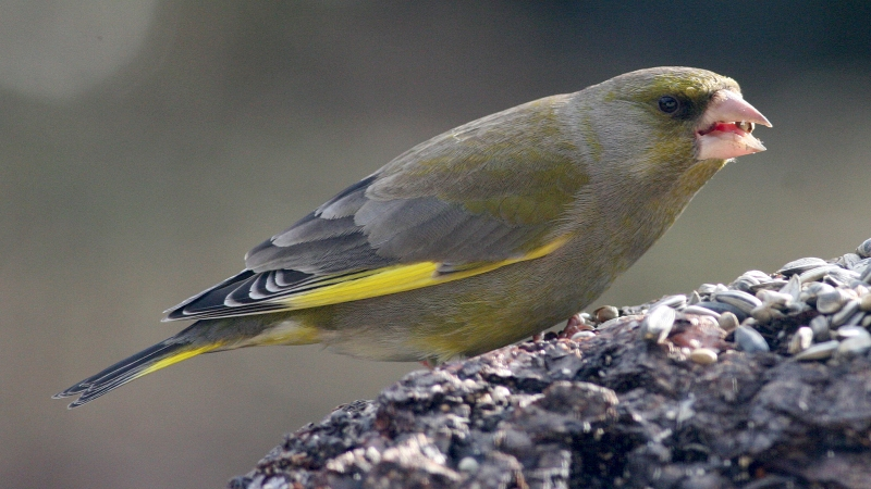 Greenfinch (Carduelis chloris)